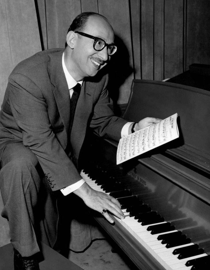 Photo of composer Sammy Cahn to promote his being a guest contestant on the Groucho Marx television program You Bet Your Life.